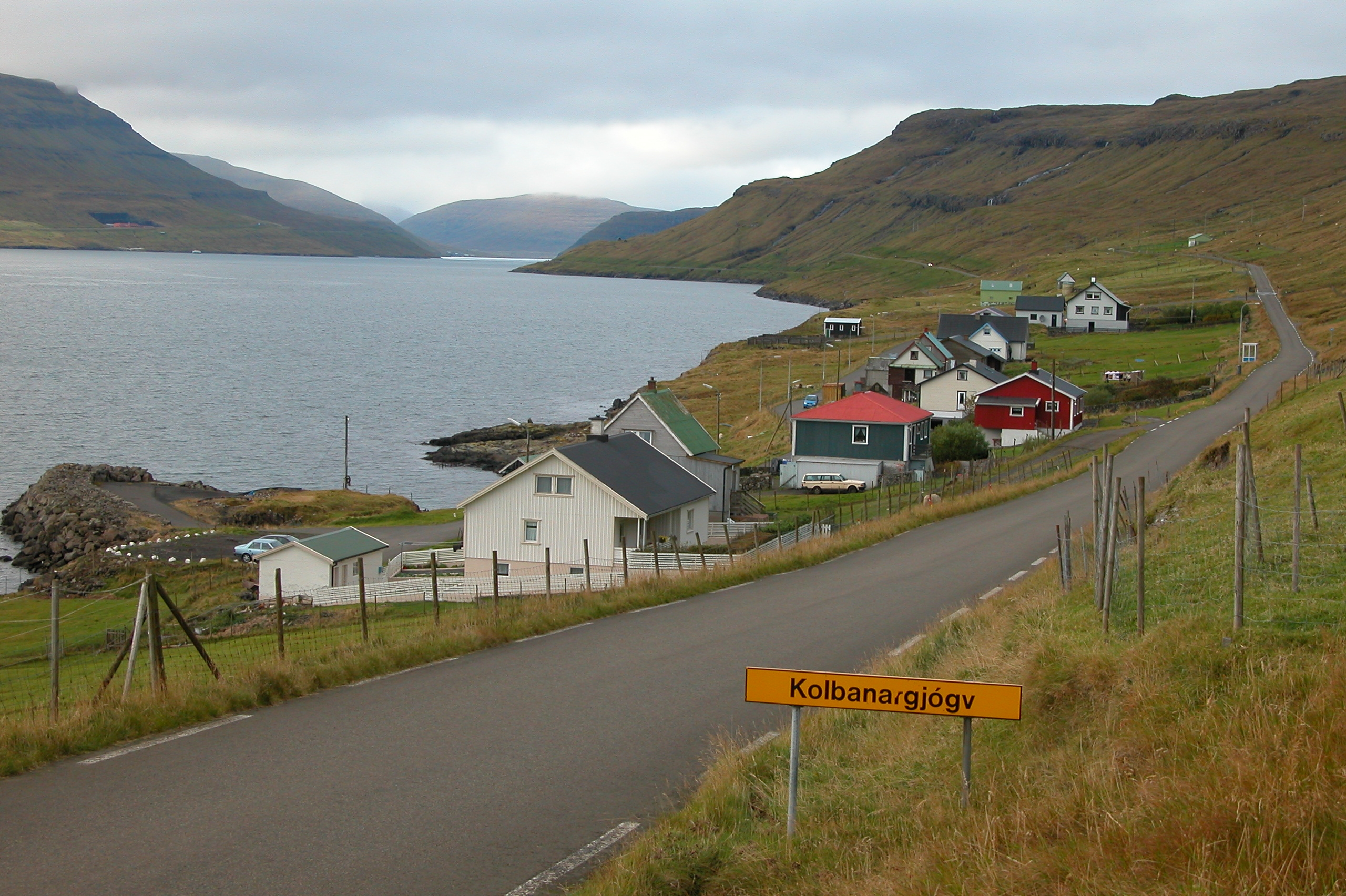 Kolbanargjógv, Eysturoy, Faroe Islands. View northwards.